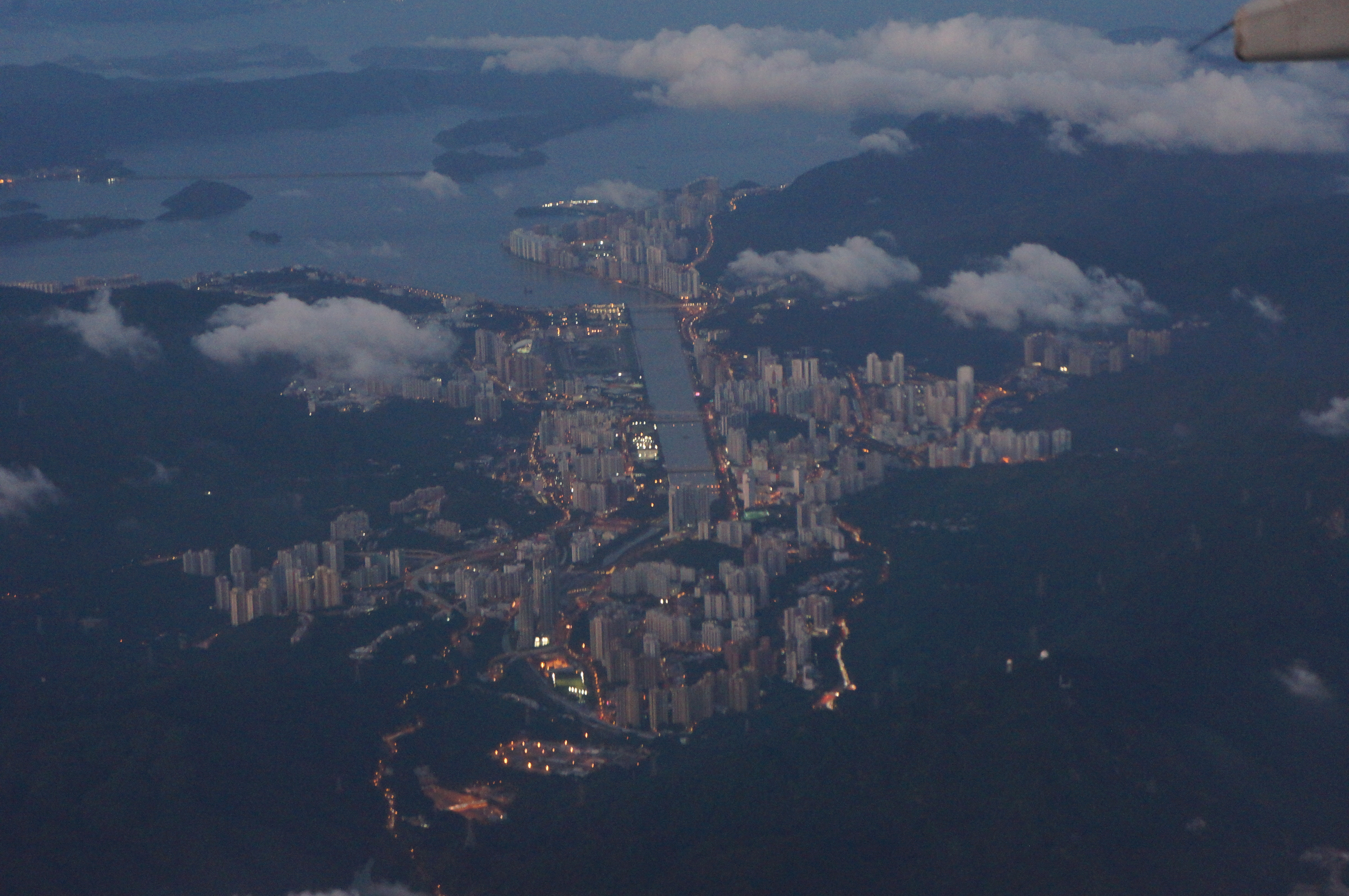 201610 Aerial photographs of Sha Tin District